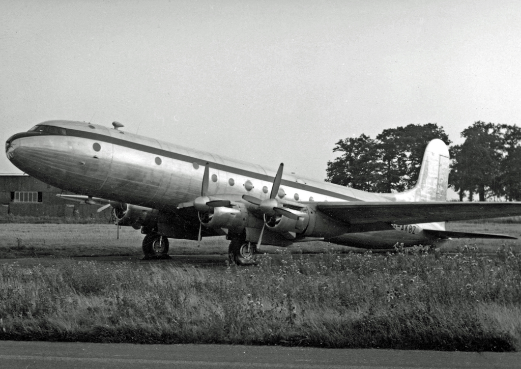 Avro Tudor 5 G-AKBZ of BOAC in storage at London Stansted in 1953